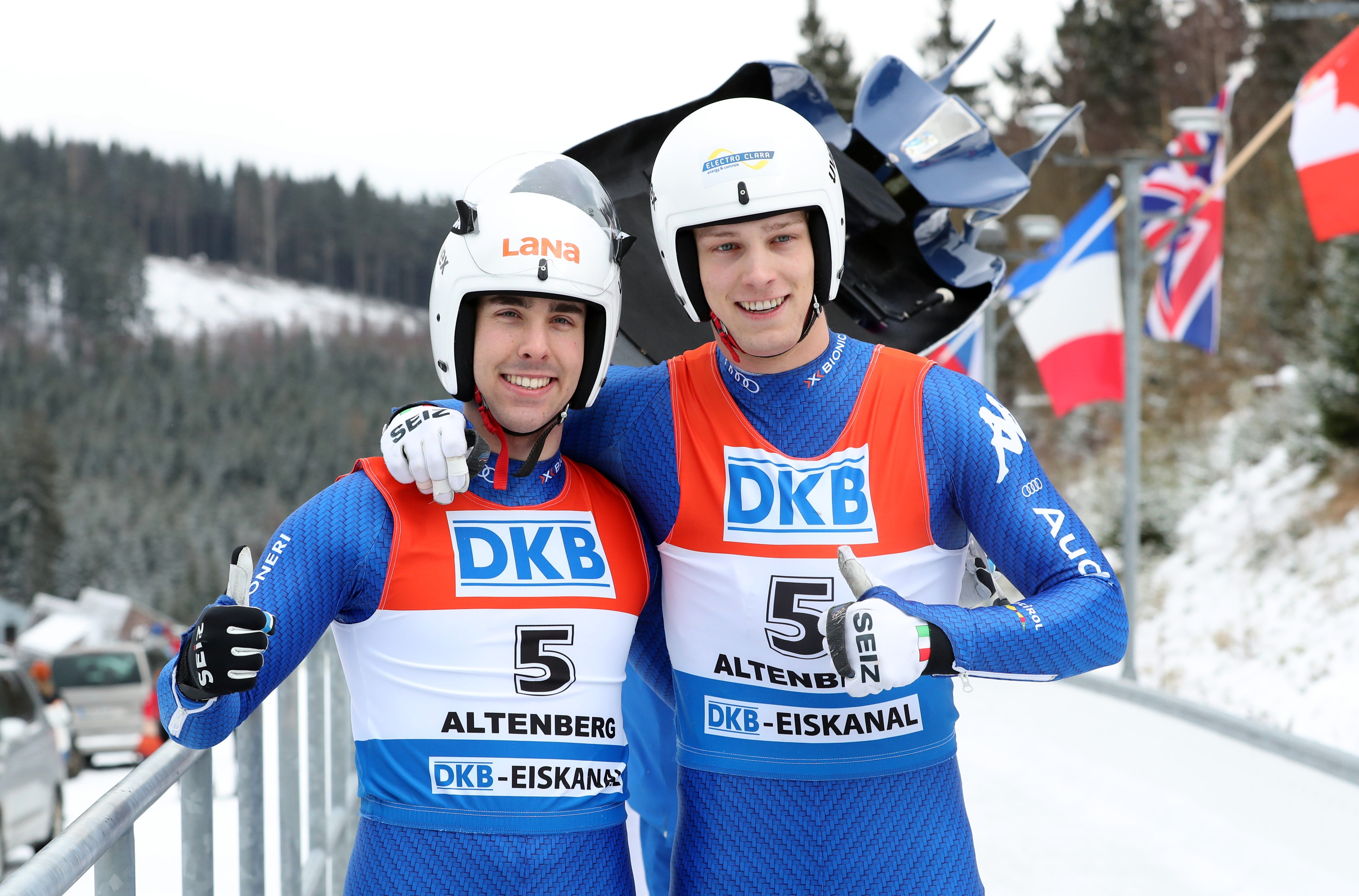 33rd Junior World Championship Luge, Altenberg 2018: Fabian Malleier, Ivan Nagler